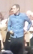 Greg Suran